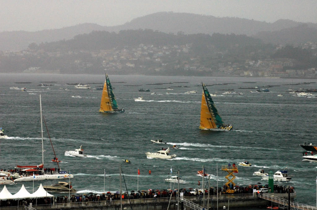 VOR2005 start at Vigo (Spain)